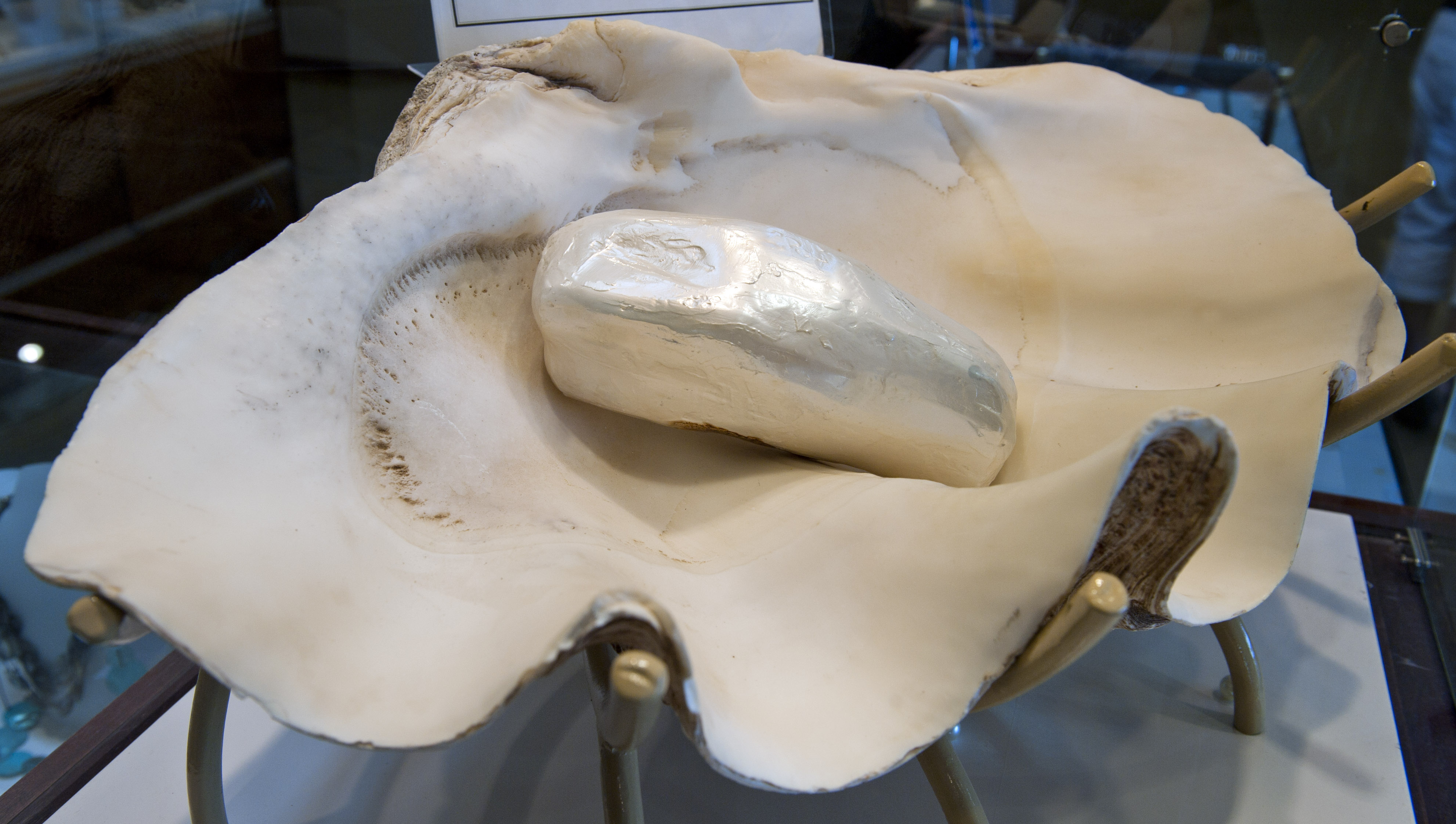 Replica of the largest pearl ever found in a Tridacna gigas. named Pearl of Allah, weight: 6.35 kg, size: 23x13 cm, found on Palawan Island, Philippines in 1934; value 35 Mio. € (observed on Tenerife in a pearl shop)